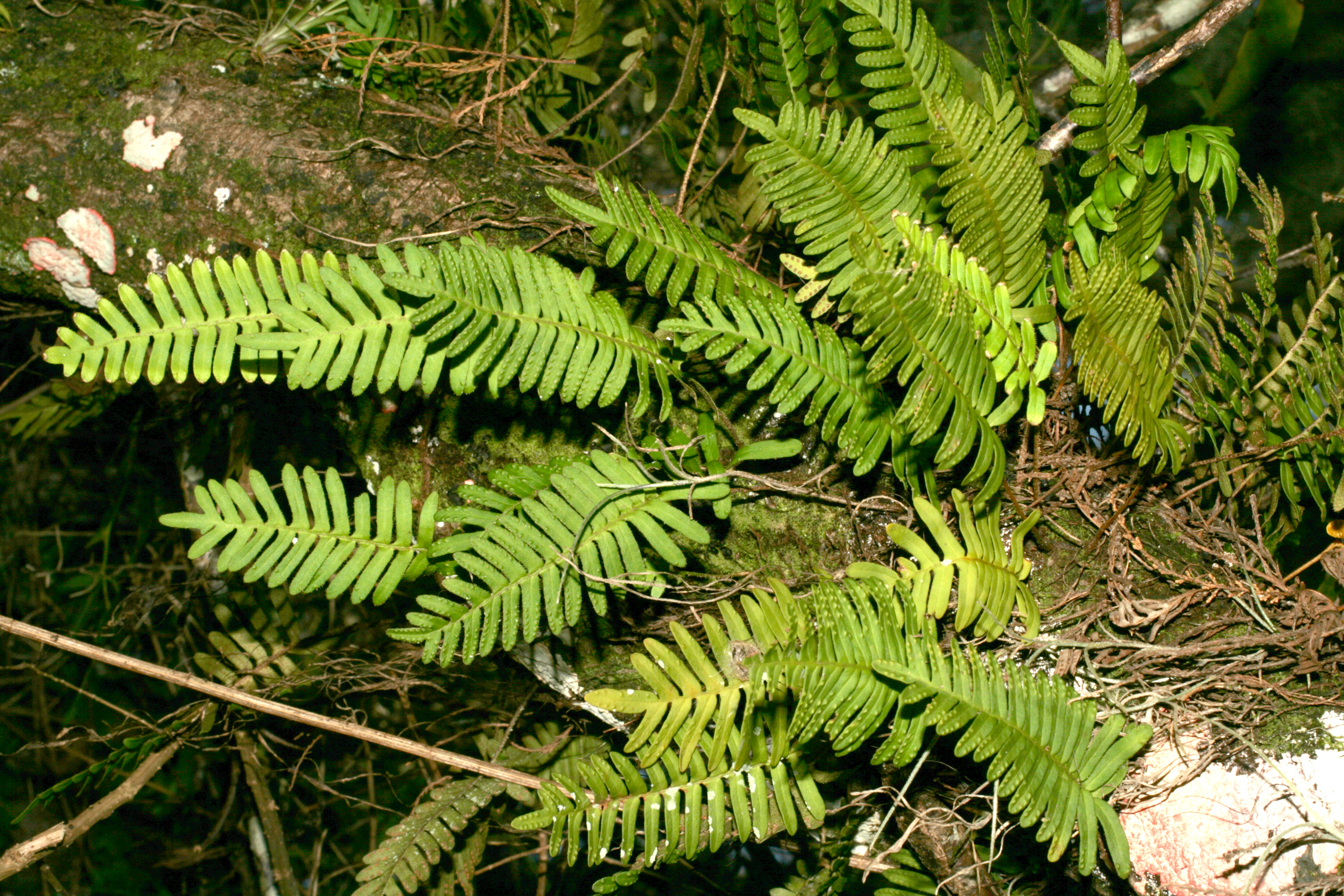 Pleopeltis polypodioides (Resurrection Fern; syn. Polypodium polypodioides) in Loxahatchee National Wildlife Refuge, Florida.